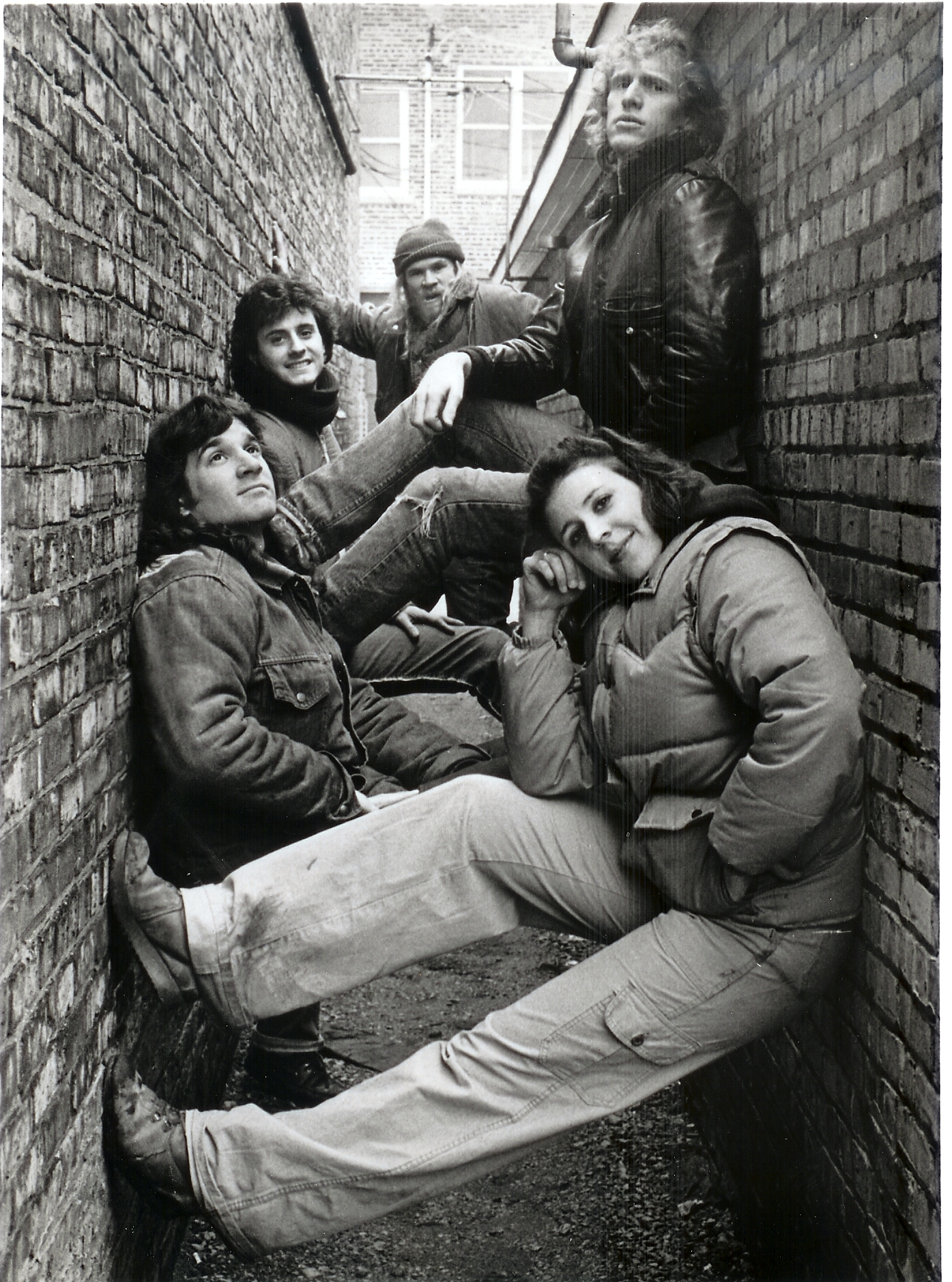 "The Brothers Bubba" cast photo: (Front to back) Jane Muller, Paul Barrosse, Brad Hall, Gary Kroeger and Rush Pearson (1982)